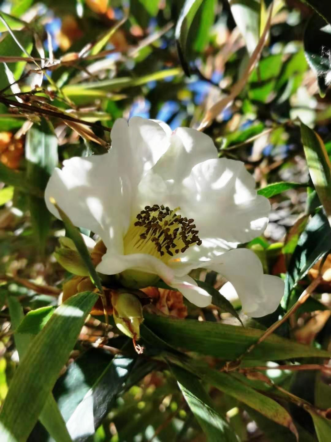 Wild Rhododendron in the mountains of Dongchuan District, Yunnan, China.